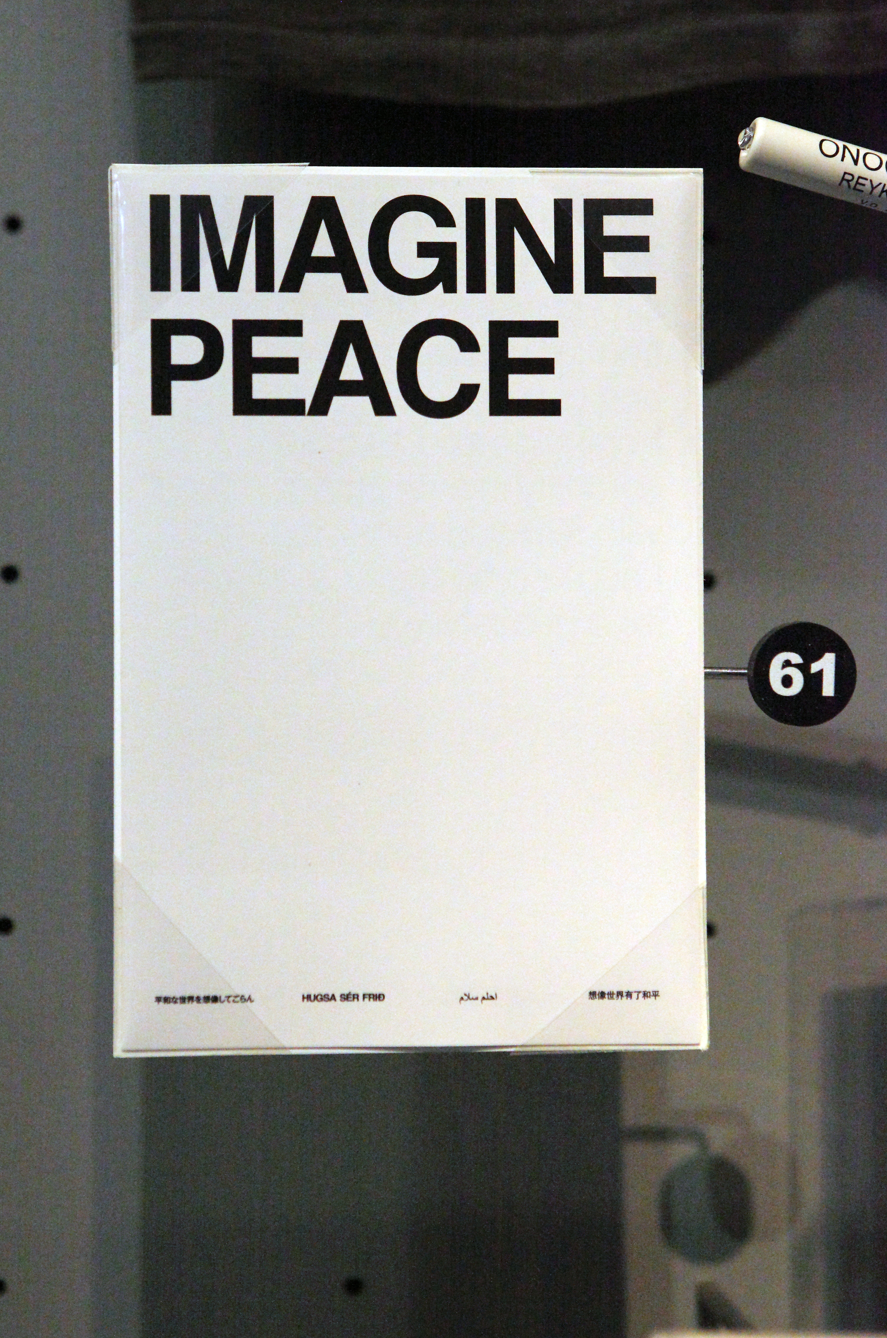 Imagine Peace sign at the Rock and Roll Hall of Fame in Cleveland, Ohio. Flickr Tags: ohio cleveland johnlennon rockandrollhalloffame imaginepeace. Flickr Tags: Rock and Roll Hall of Fame Cleveland Ohio. from Flickr album "Rock and Roll Hall of Fame" by Sam Howzit